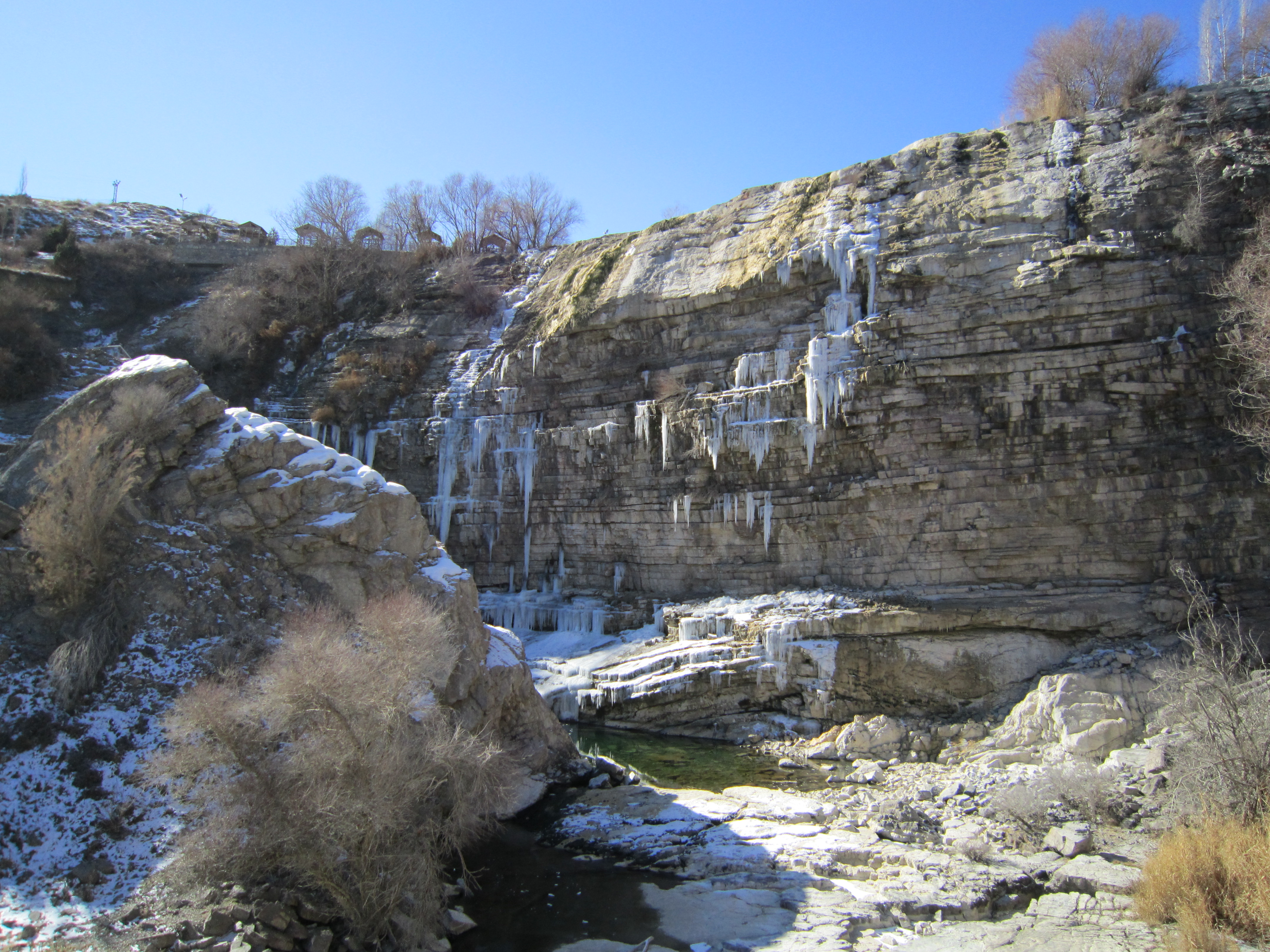 Tortum Waterfall February 2012